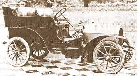 1905 Whitlock-Aster 14 hp